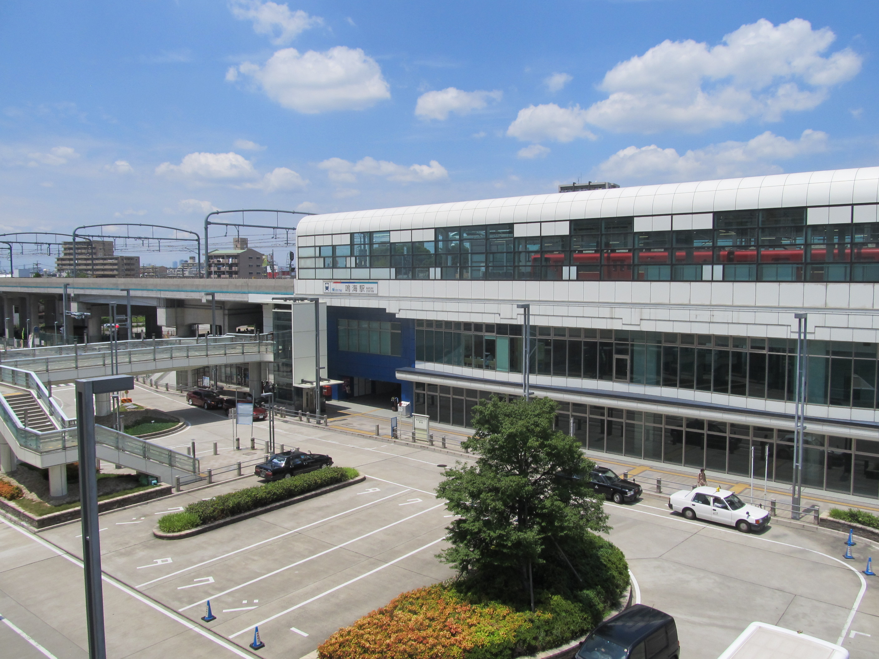 Nagoya Railroad Nagoya Main Line Narumi Station Building